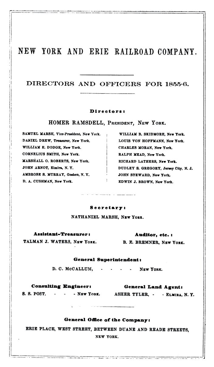 Directors and officers, New York and Ernie Railroad Company, 1855-56